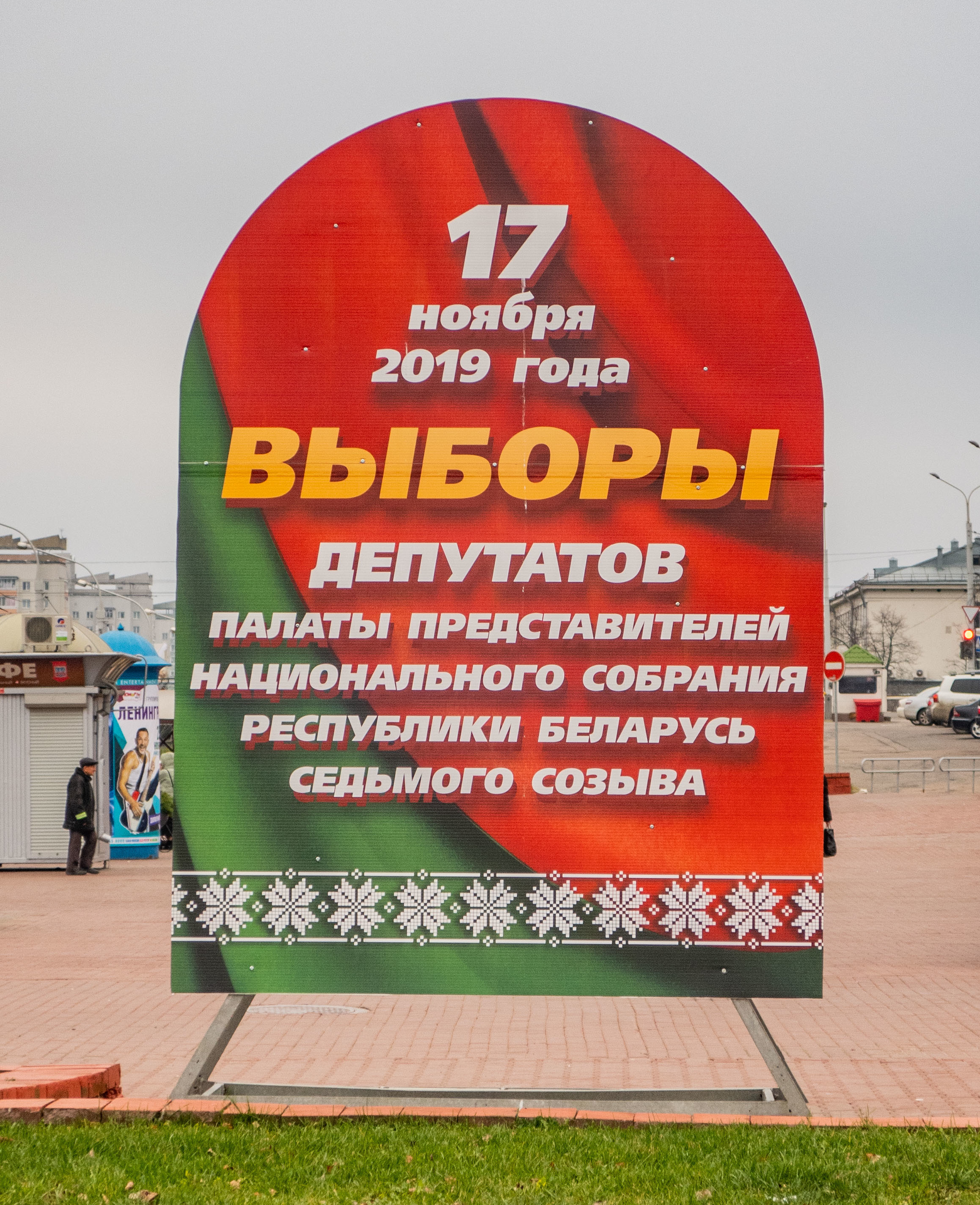 Parliamentary election in Belarus 2019 street banner